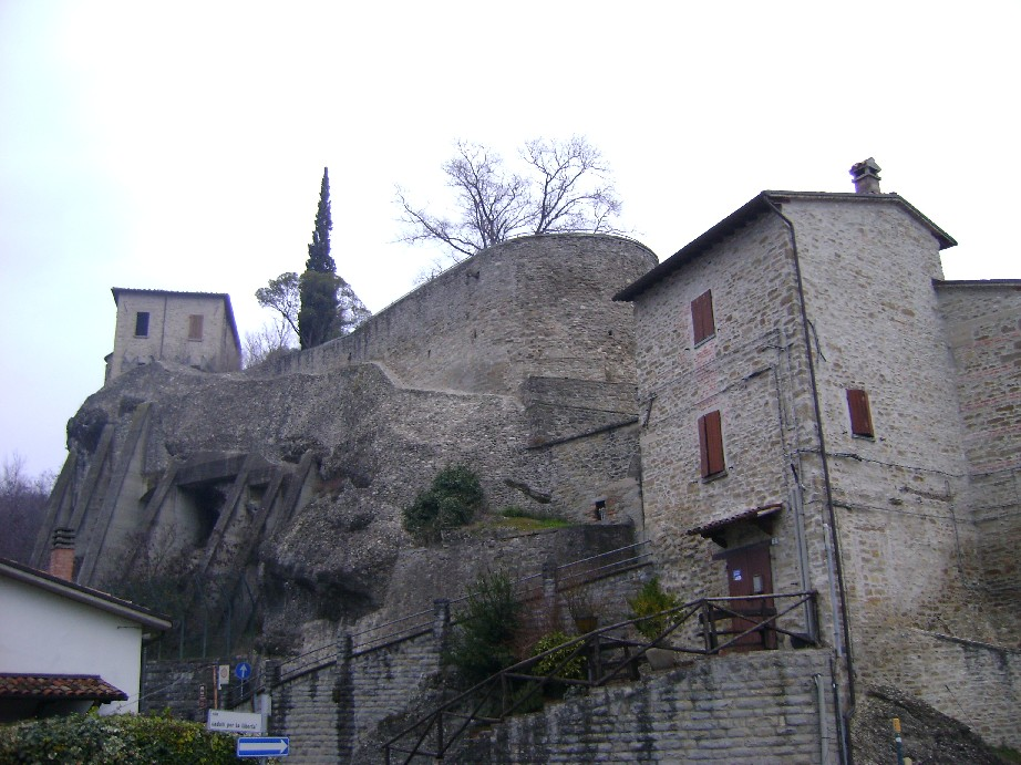 The rocky spur on which leans the castle of Cusercoli (Civitella di Romagna - province of Forlì-Cesena)